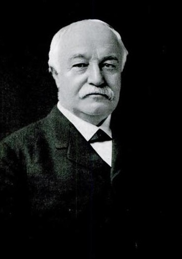 Shakespearean scholar Horace Howard Furness, from a photograph published posthumously in 1915